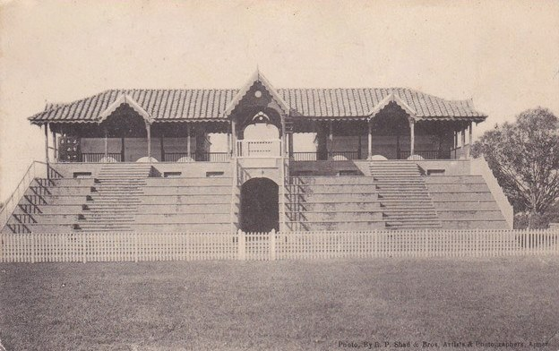 The Scindia Pavillion, Circa 1910s. It was donated by HH Maharaja Sir Madho Rao I Scindia of Gwalior. Taken from